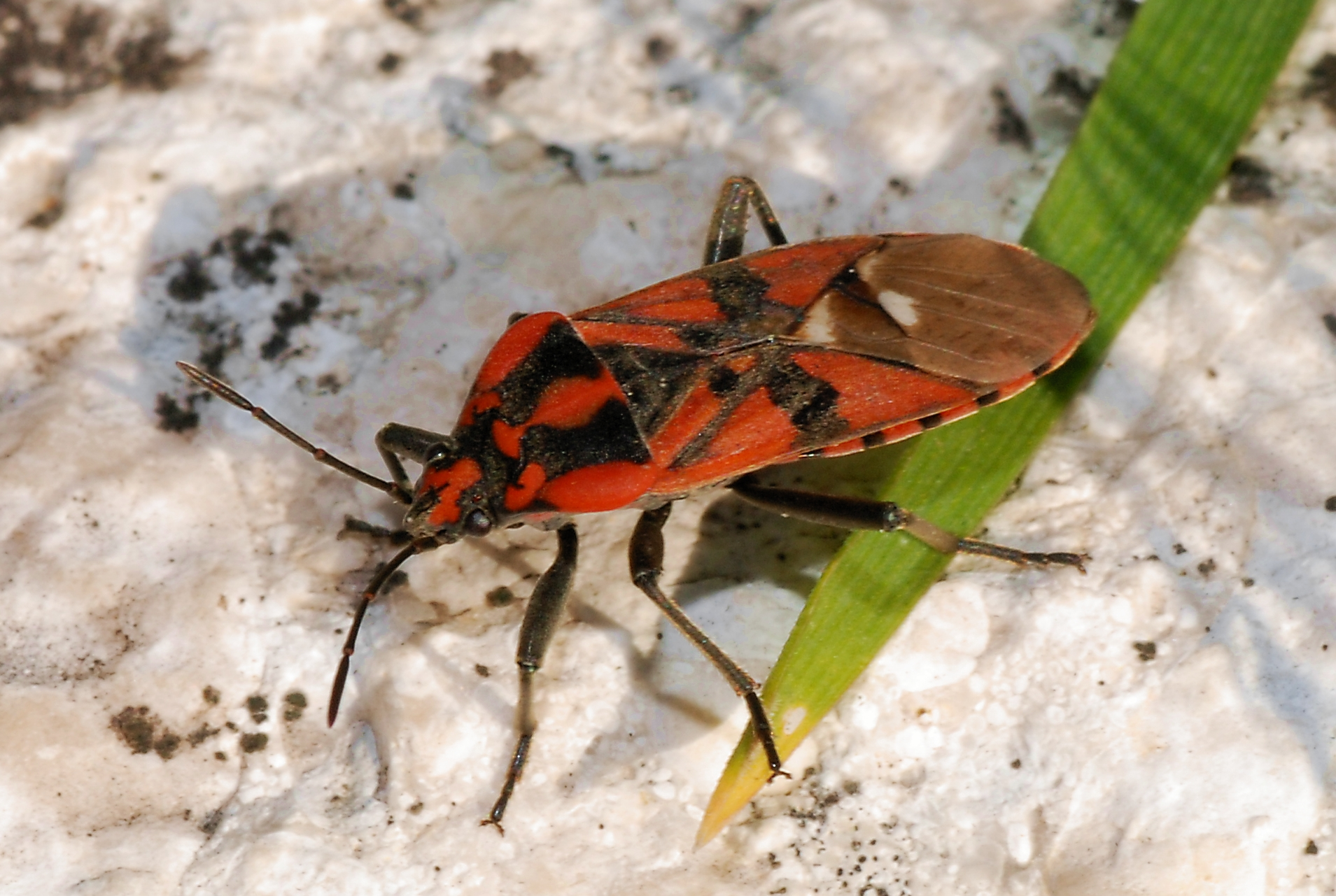 A species of true bug in the Lygaeidae family